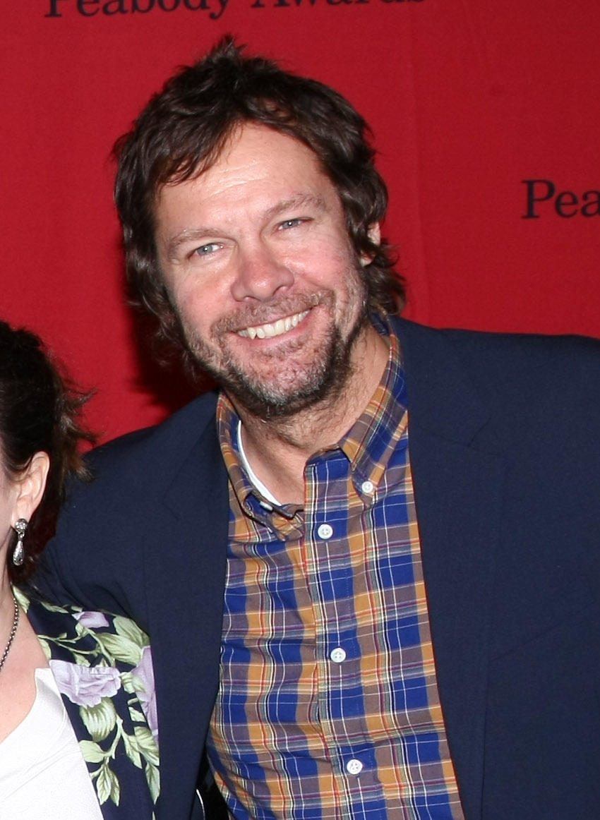 PHOTO CREDIT: ANDERS KRUSBERG / PEABODY AWARDSDave Becky at the 72nd Annual Peabody Awards Luncheon at the Waldorf-Astoria Hotel in May 20, 2013